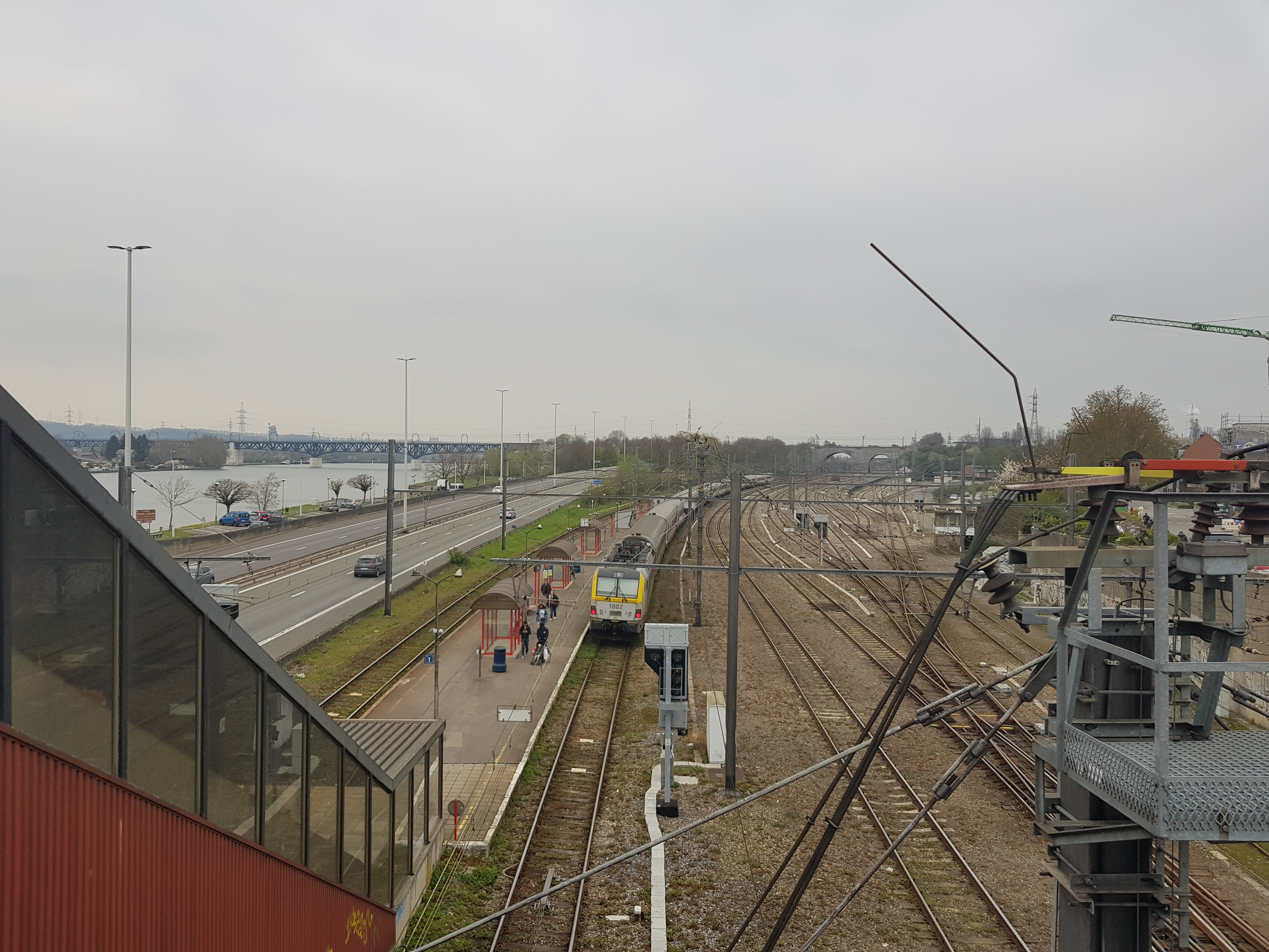 A peak IC-train terminates from Brussels-Midi/Zuid at Visé railway station. Visé is a town in the northern Liège province of Belgium and on the border with the Netherlands.